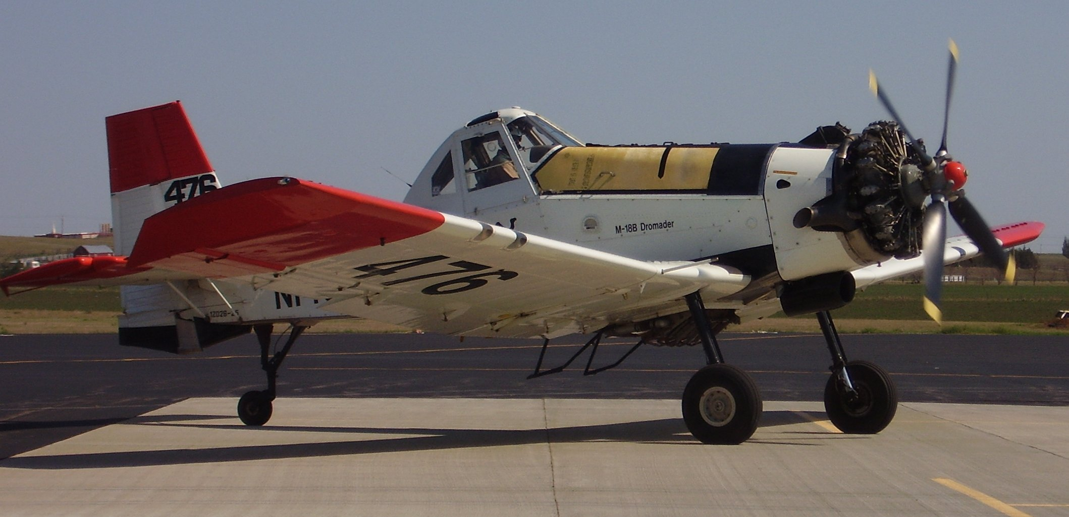 The PZL-Mielec M-18B Dromader used by the State of South Dakota for wildland fire supression. The water outlet can be seen just aft of the landing gear.